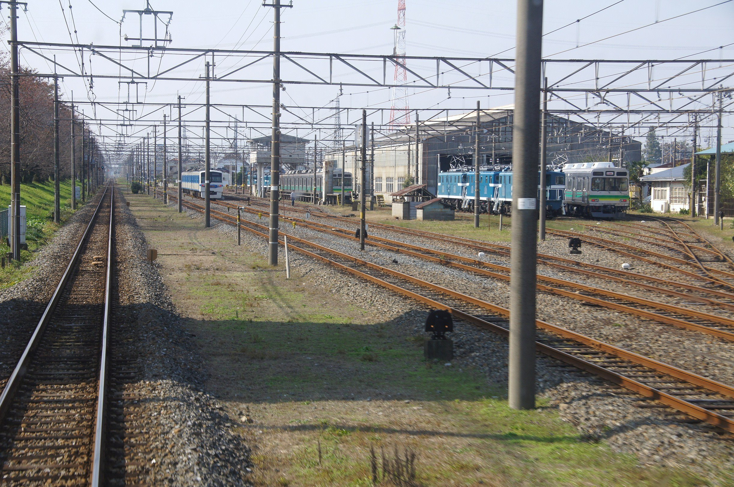 Hirosegawara Depot on the Chichibu Main Line viewed from a passing train, with EMUs and electric locomotives visible